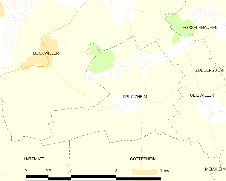 Map of French municipality